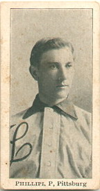 1903 E107 Breisch Williams Deacon Phillippe This file was created by the owner of the Baseball Card.